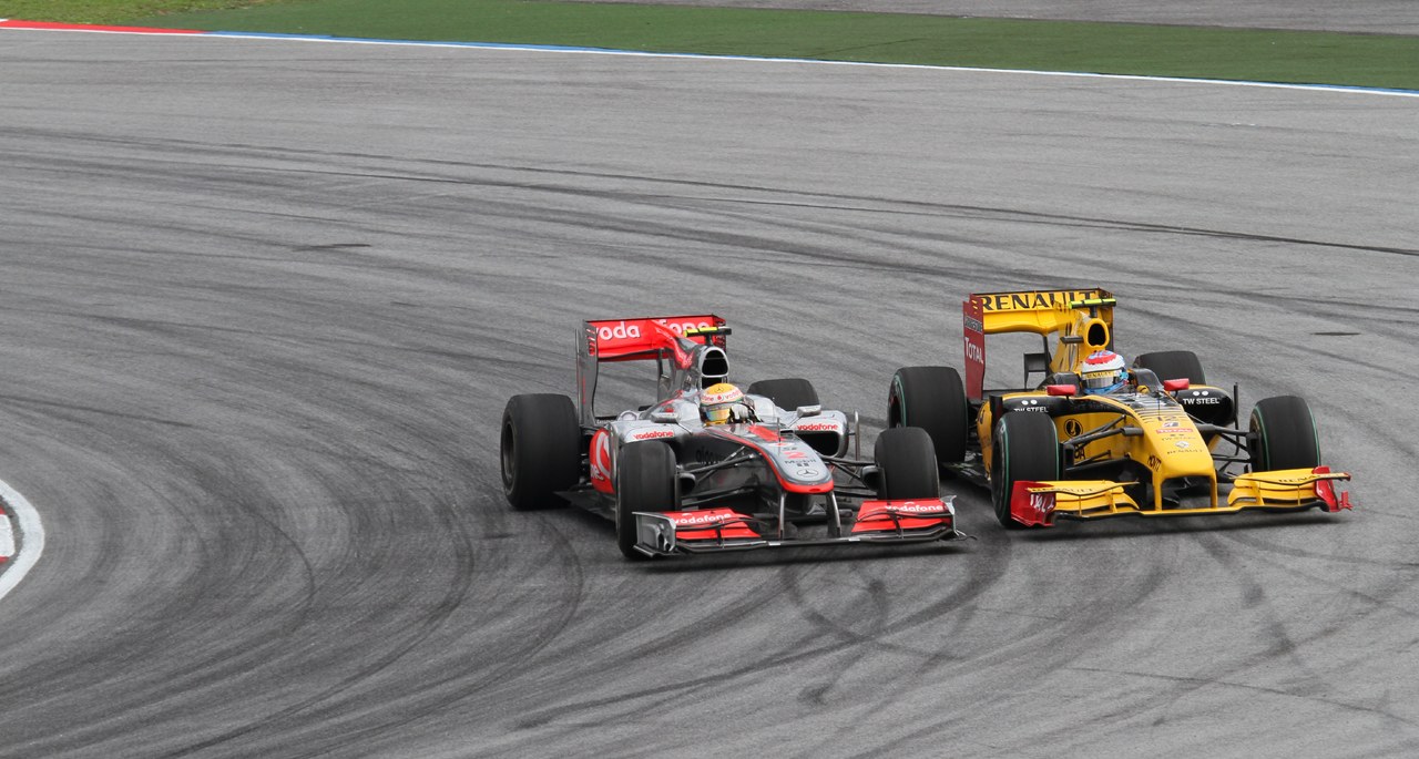 Formula One 2010 Rd.3 Malaysian GP: Lewis Hamilton (McLaren) overtaking Vitaly Petrov (Renault).